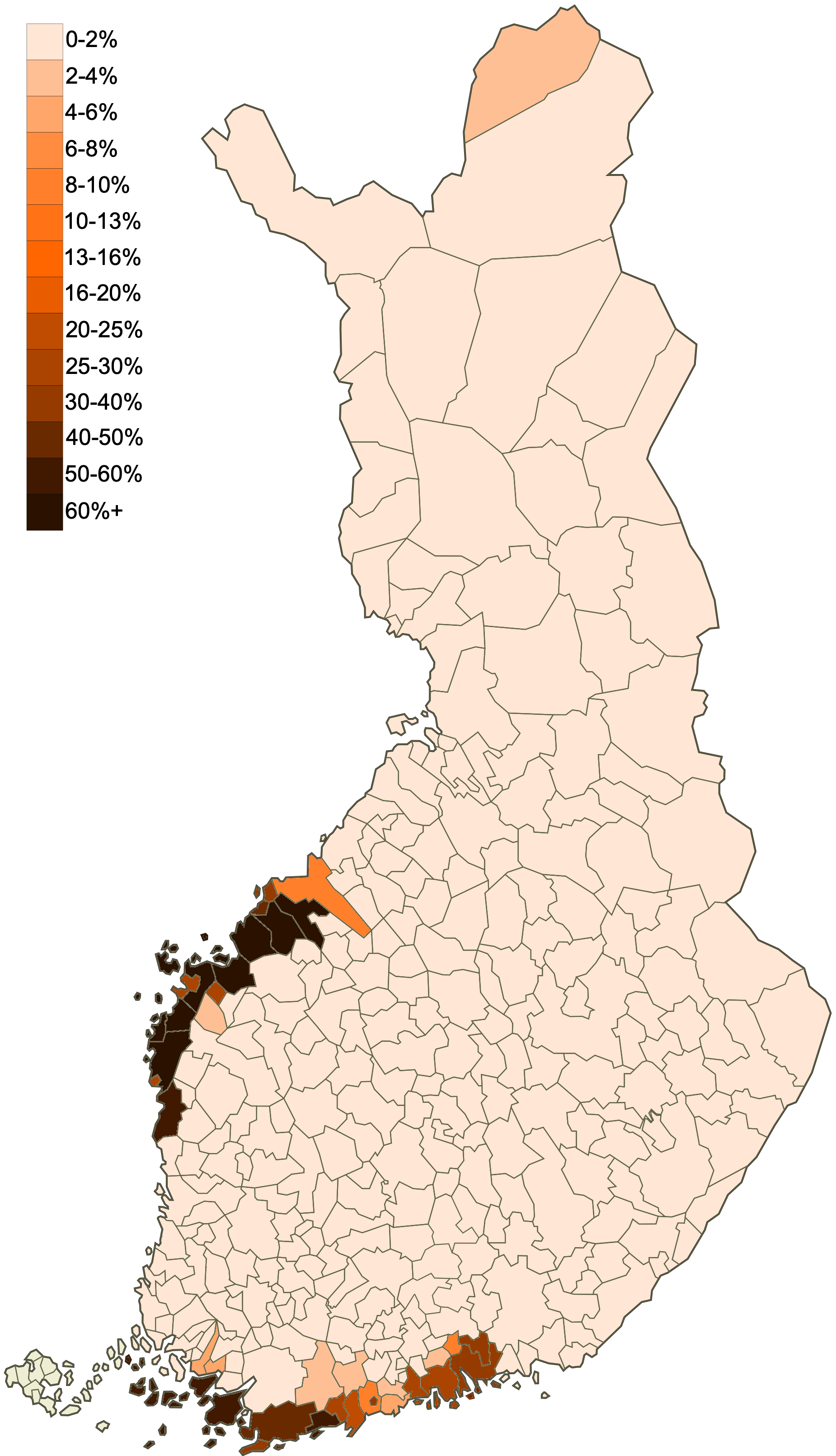 Support for the Swedish Party by municipality in the election for the Eduskunta.